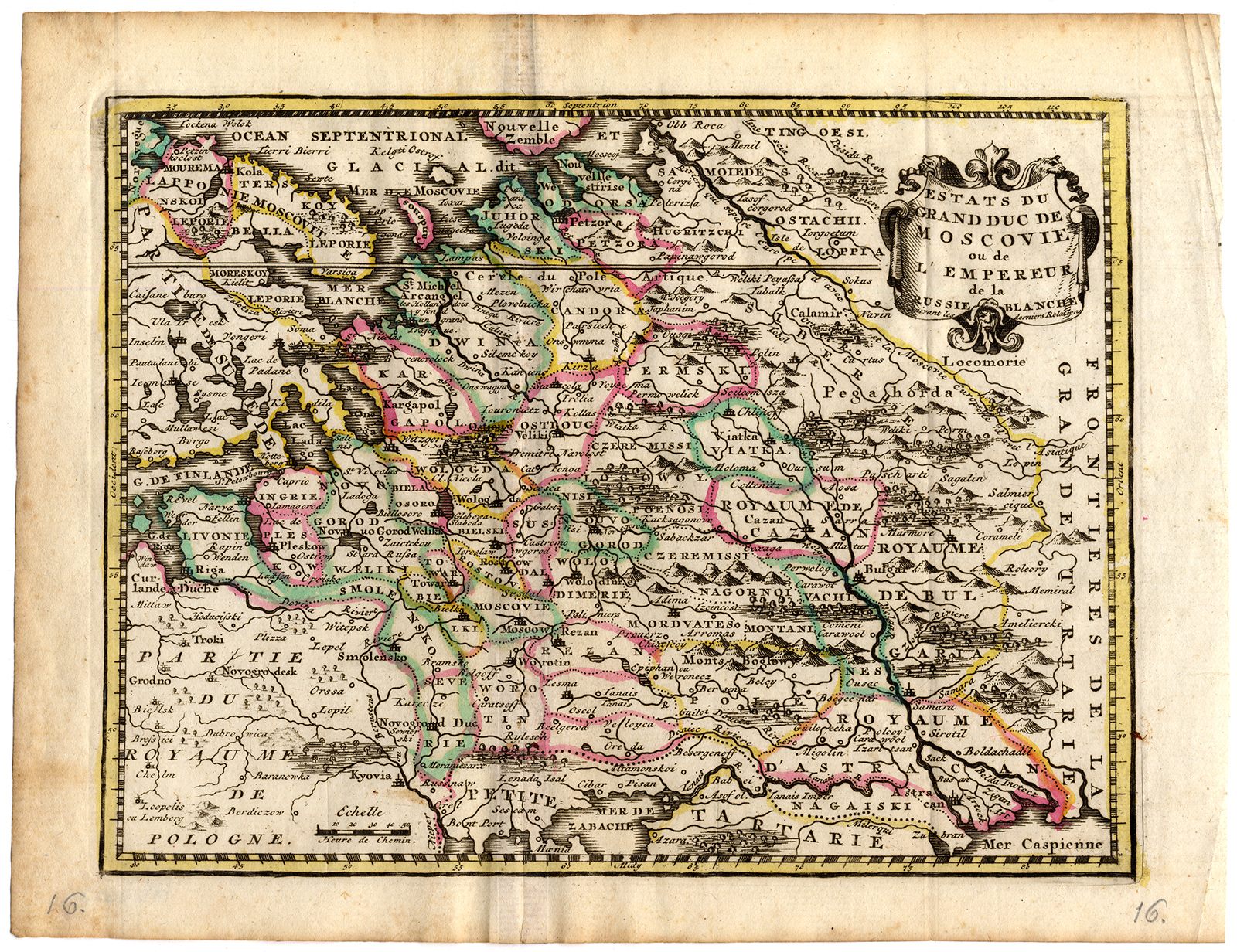 a map "Estats du Grandduc de Moscovie ou de l’Empereur de la Russie Blanche suivant les derniers relations" (1749) by Hendrik de Leth (Netherlands)